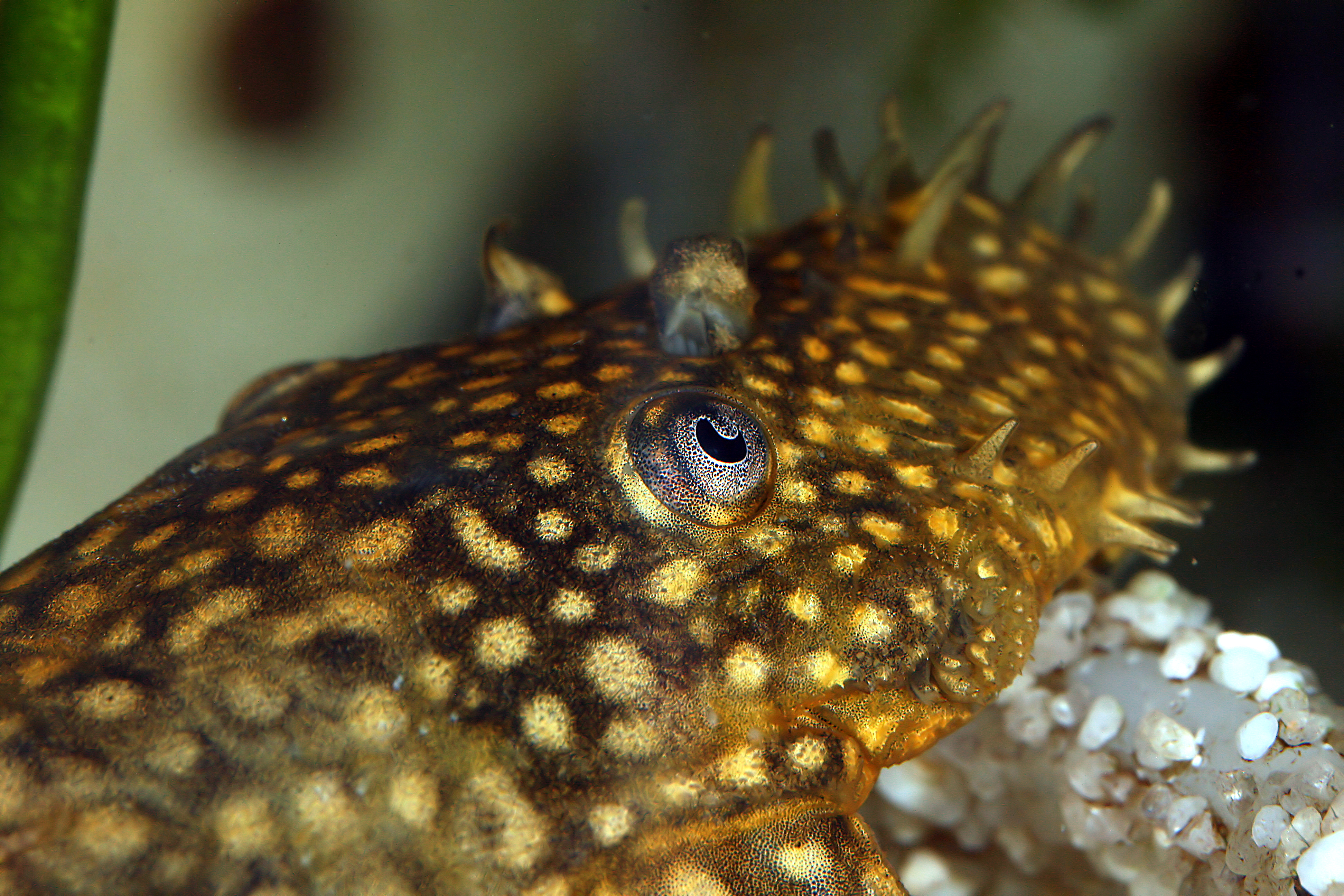 Description: Closeup of a bristlenose plecs (Ancistrus)